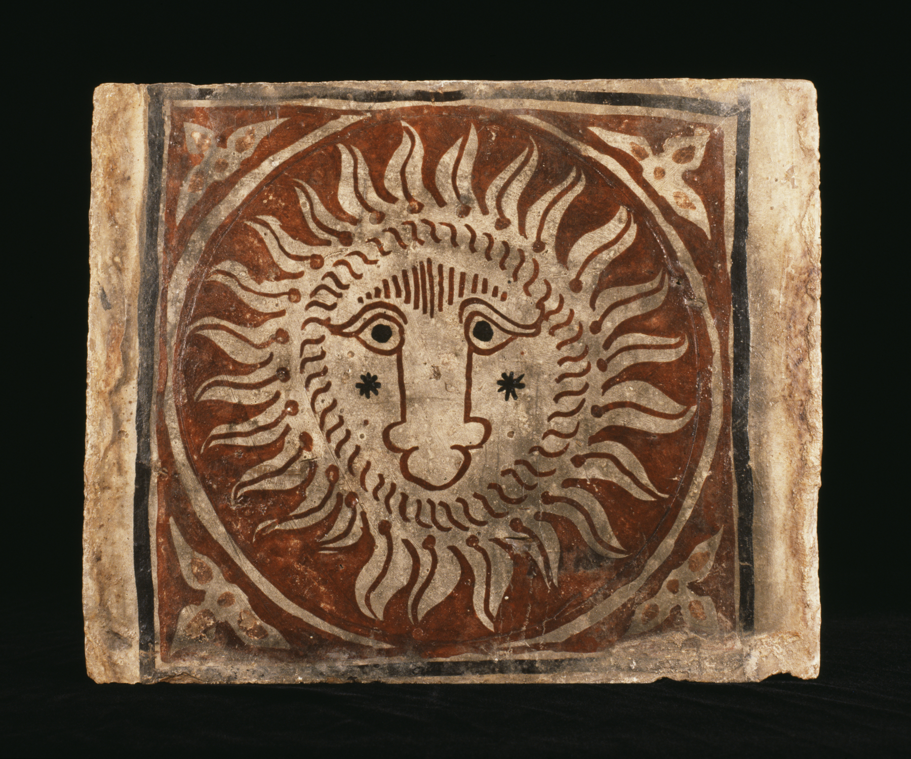 Lions are often depicted on ceiling tiles of this kind, but the stylized frontal view of the animal's head here is quite unusual and was probably influenced by similar images on glazed ceramic dishes. The piece once belonged to the newspaper magnate William Randolph Hearst (1863-1951). Nothing is known about its earlier provenance. Most comparable examples of known origin come from the town of Paterna, evidently the principal center of socarrat production.